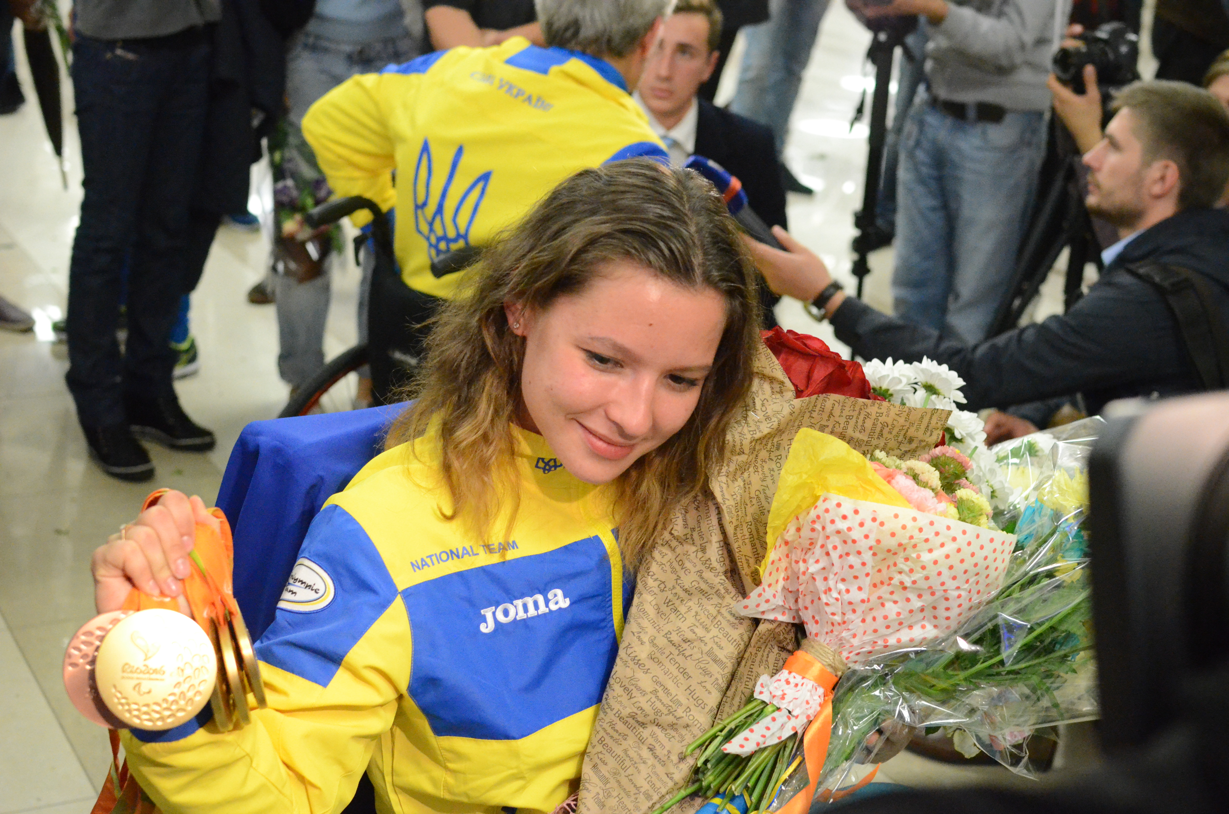 Yelyzaveta Mereshko